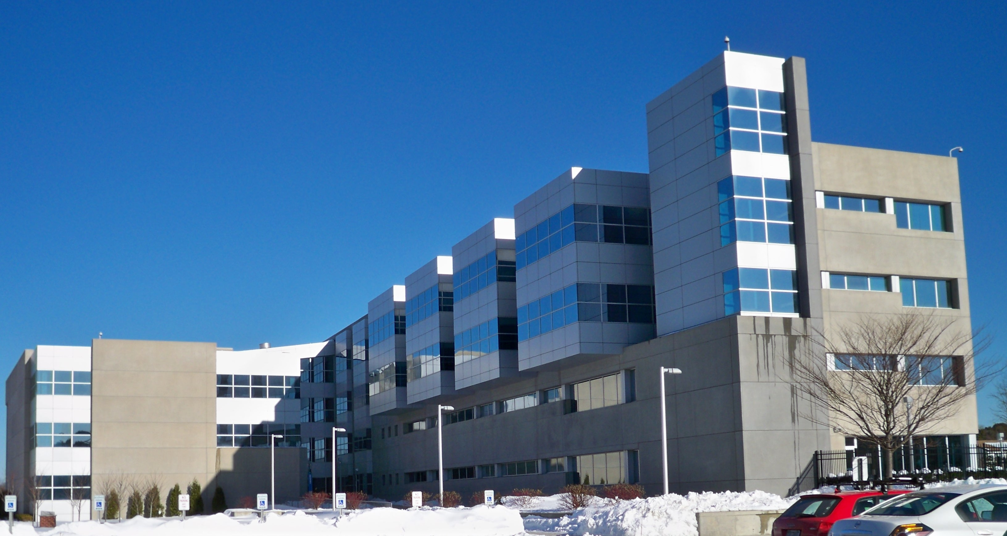 View of the southern wing of Touro Law Center.